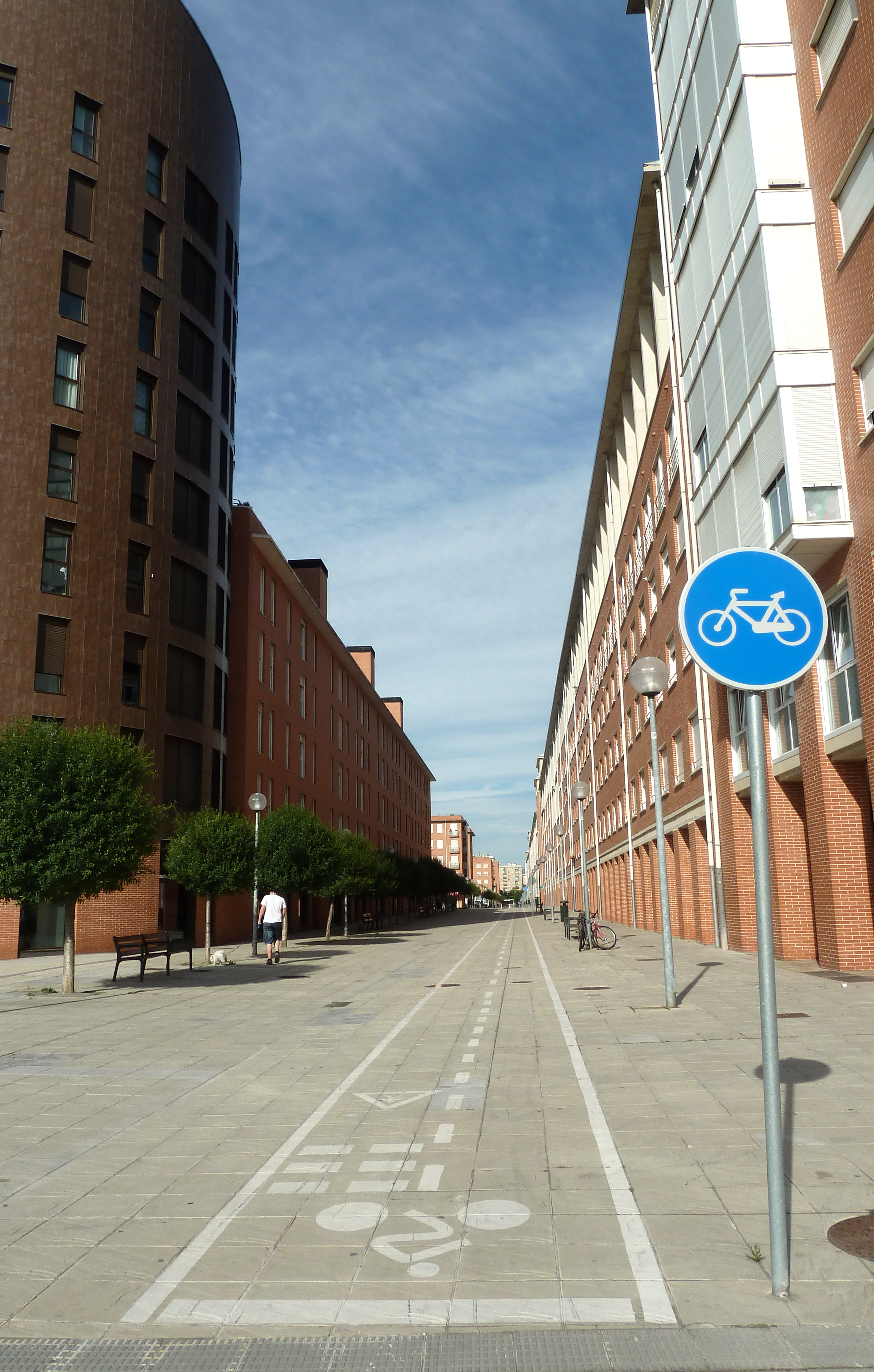 Pamplona/Iruña bike lane. In the district of San Jorge bike path passes through several streets, including the Sandua Parade.